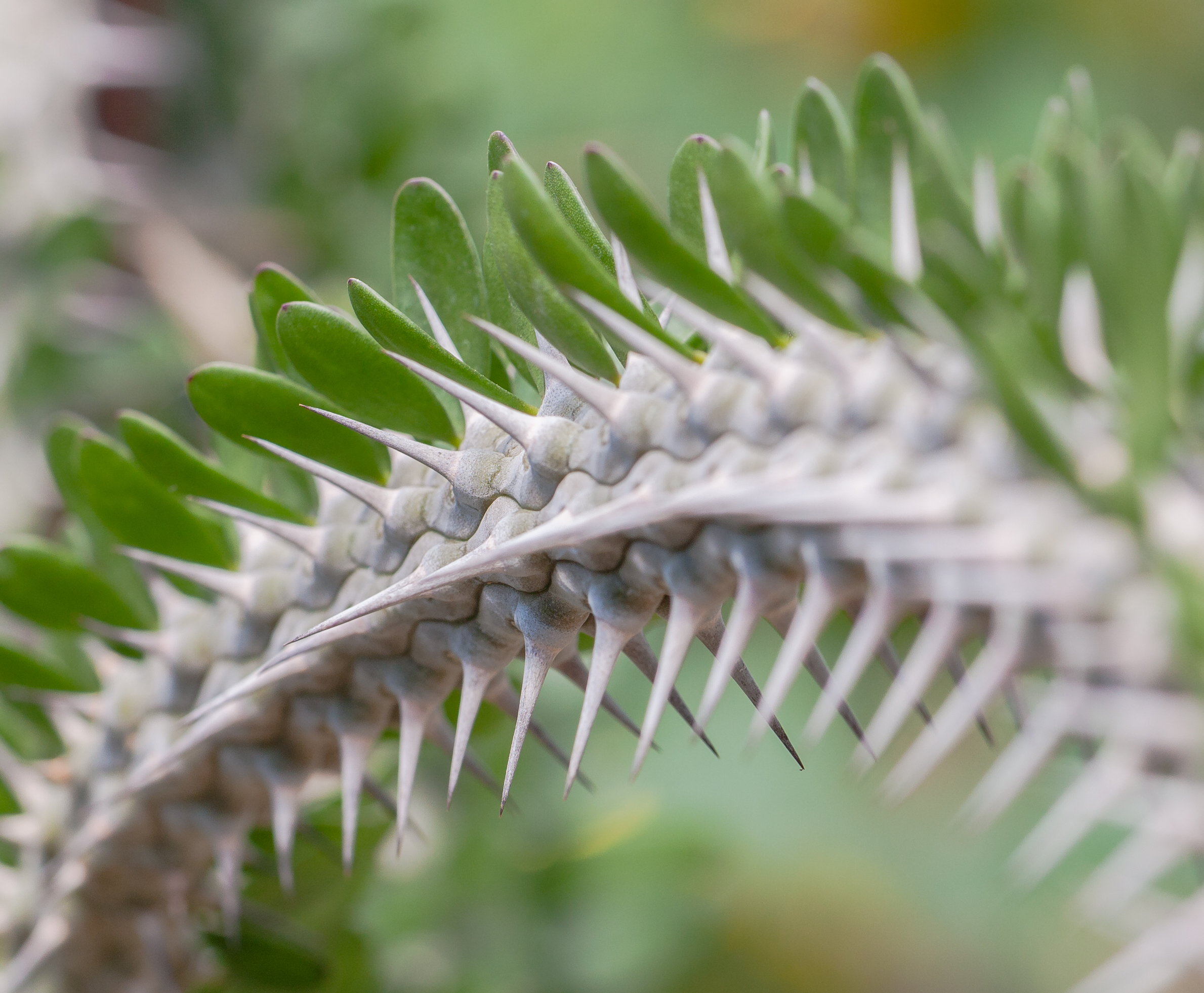 Alluaudia procera, Tallinn Botanic Garden, Estonia